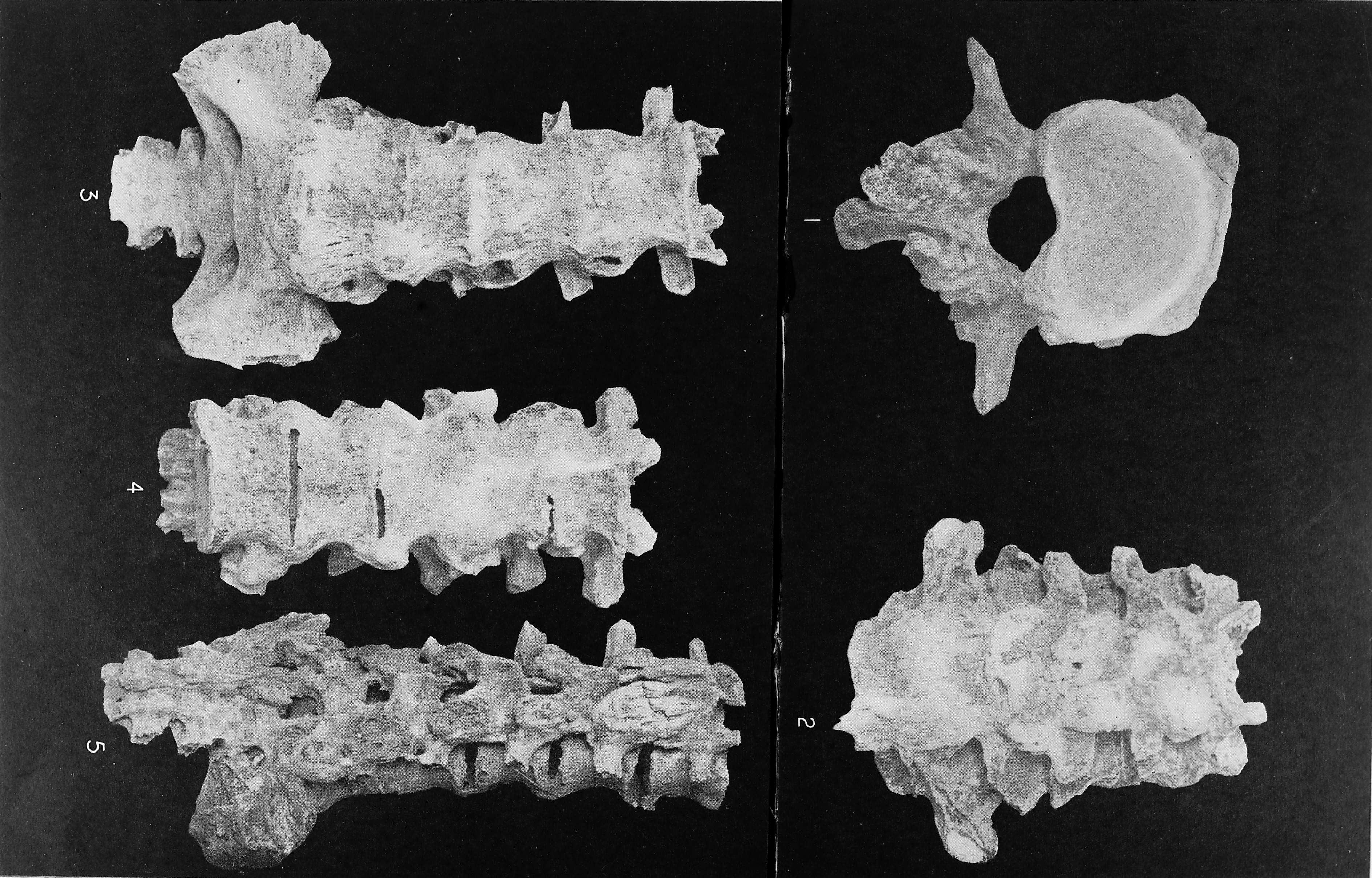 Spondylitis deformans in a skeleton of the III dymasty [2980-2900 B.C.] spinal coulmn General Collections Keywords: Marc Armand Ruffer; Paleopathology; spondylitis deformans